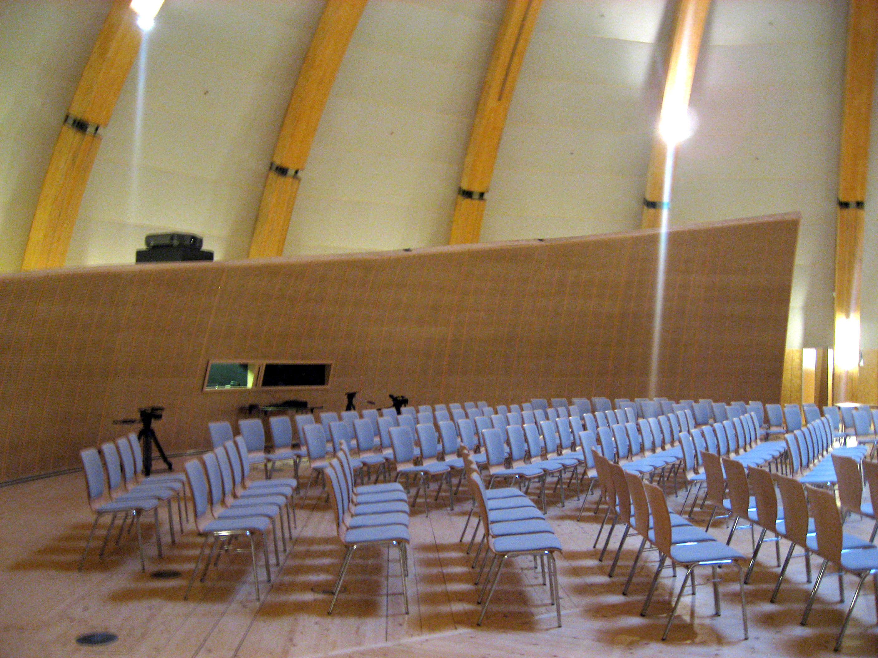 CERN Globe of Science and Innovation in Geneva - Insight view